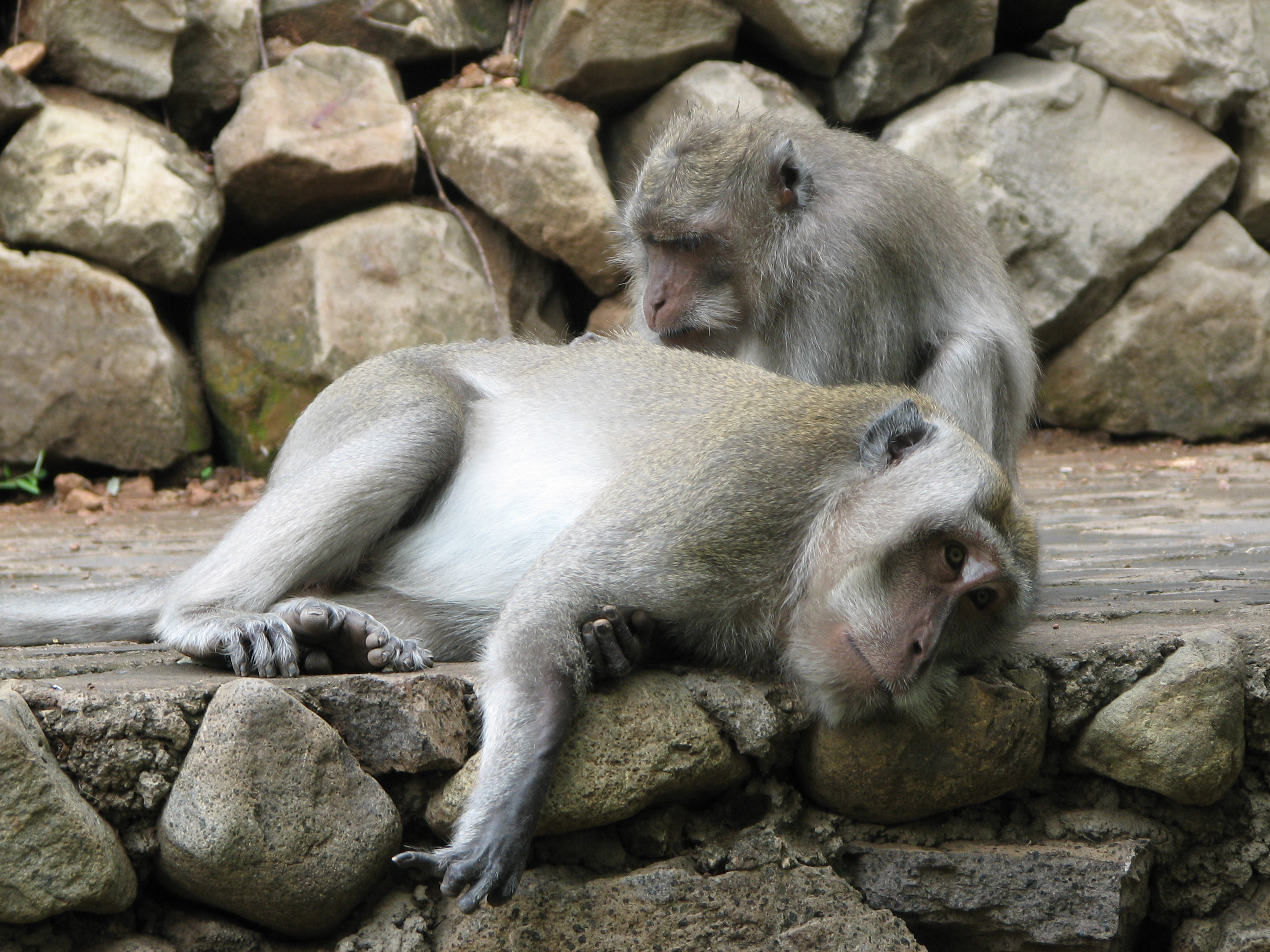 Crab-eating macaques, in the temple of Pura Pulaki (Bali island, Indonesia)